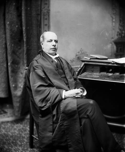 Depicted person: John George Bourinot – Canadian historian and journalist